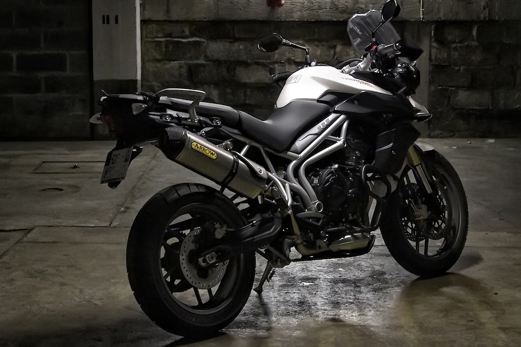 Triumph Tiger 800 (Arrow exhaust and crash bars are custom accessories)